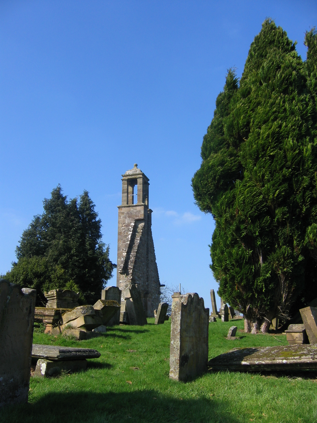 Ruins of Old St. Ninian's Kirk, Stonehouse, South Lanarkshire, Scotland.